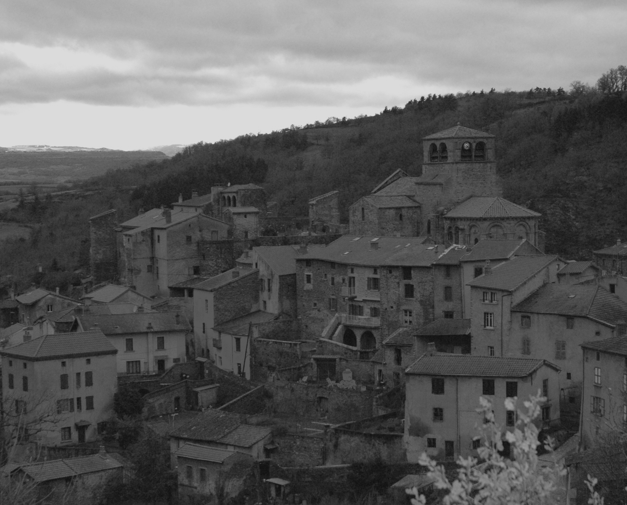 Citadel's Overview